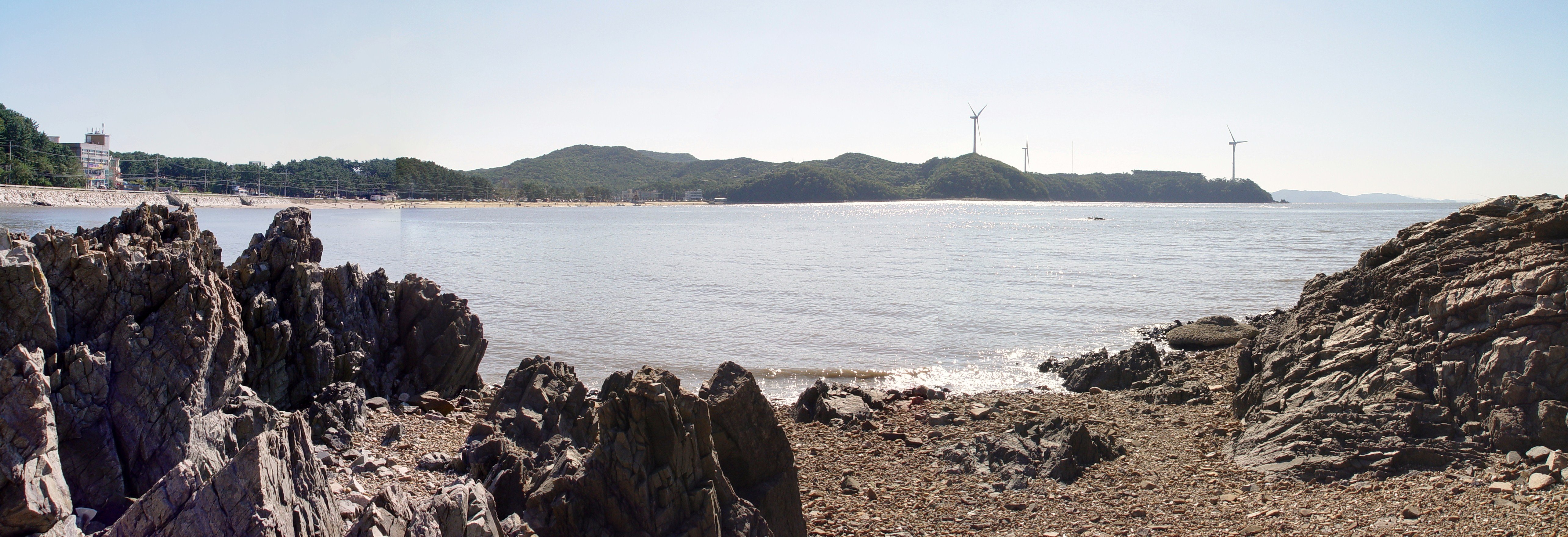 Jeonggyeong-ri, northwest Yeongheung Island, South Korea